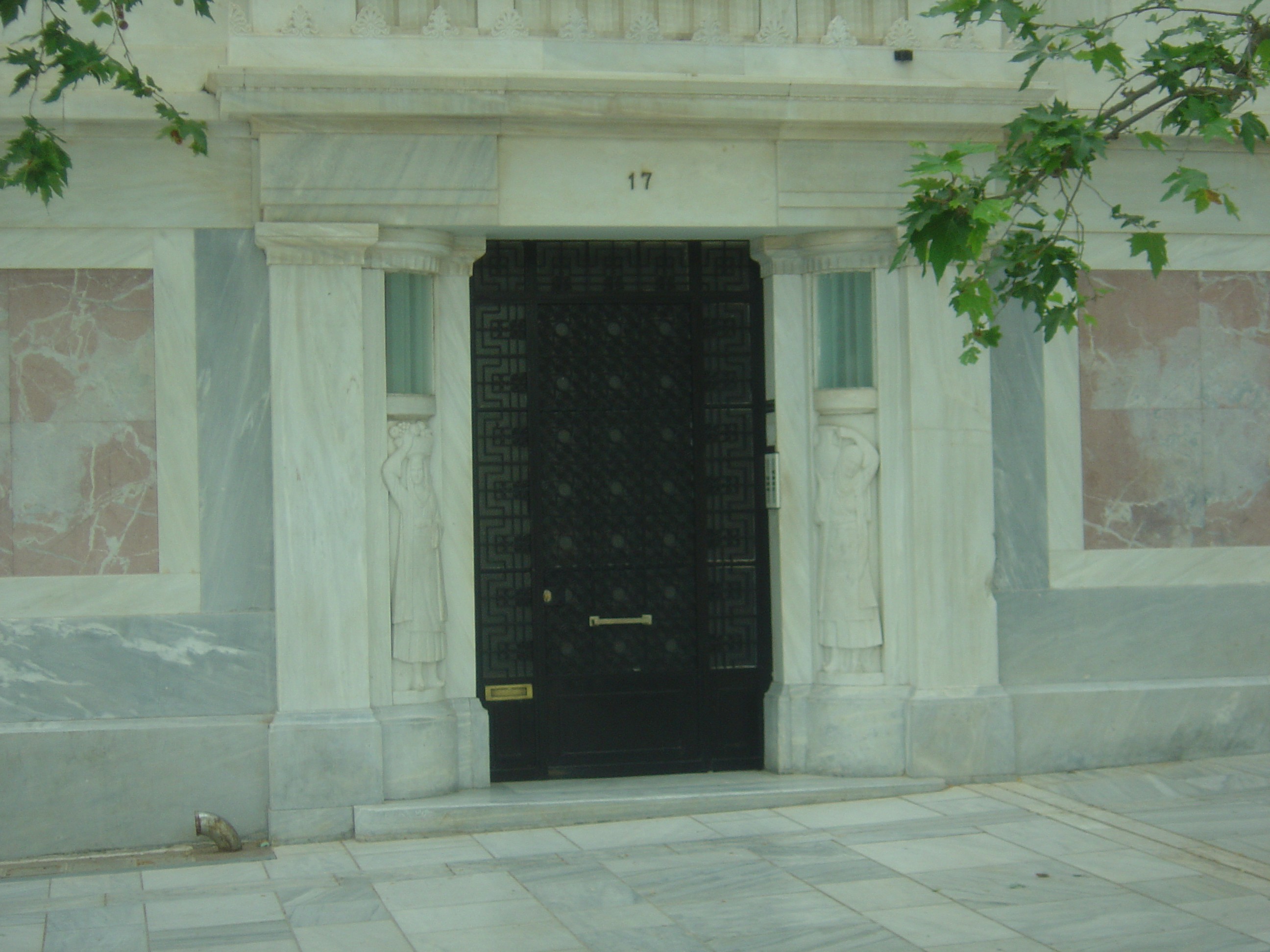 Art Deco house in Athens